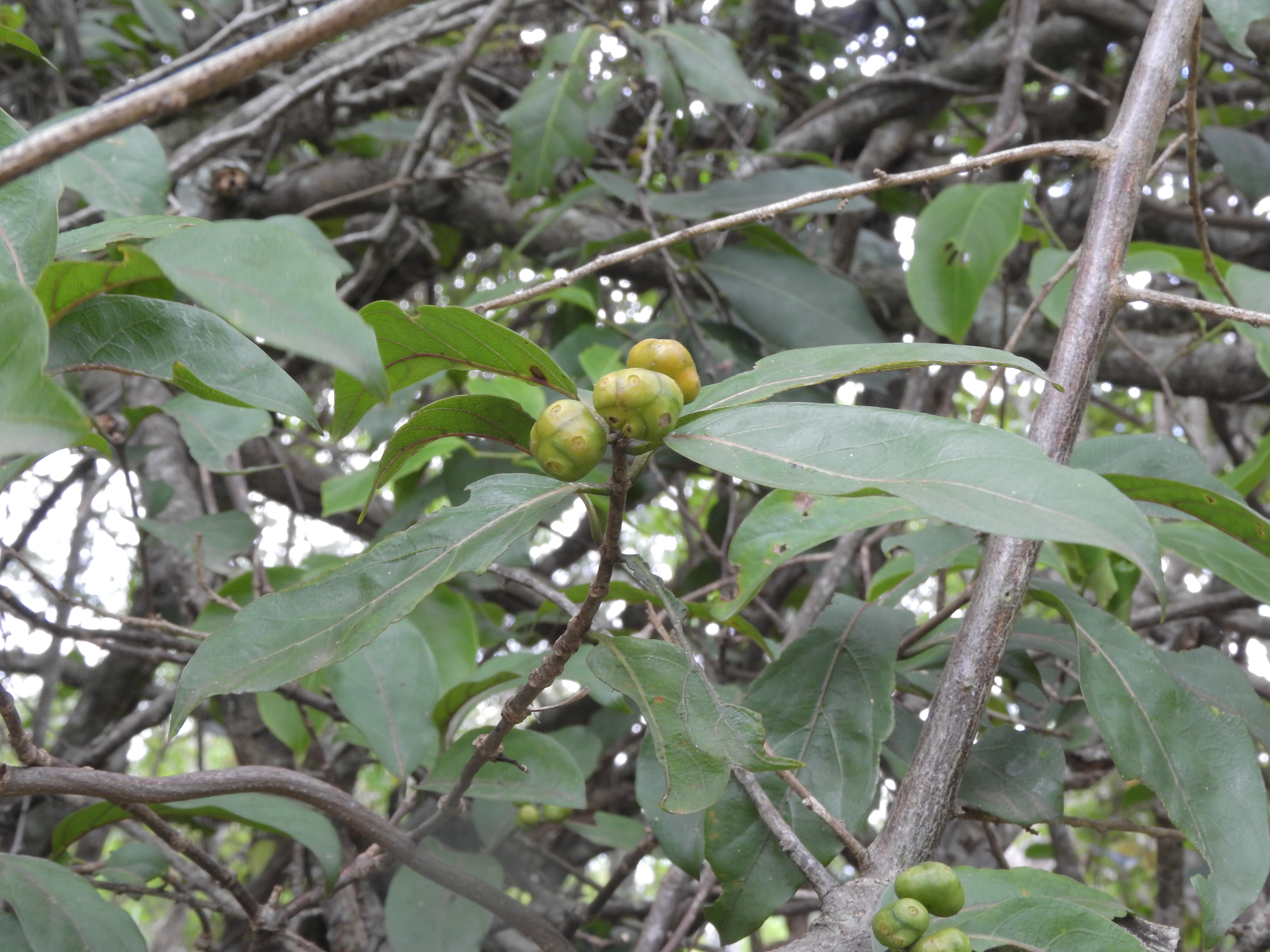 Rubiaceae-santhukkodi,twining liane,flowers white,fruit orange when ripe.